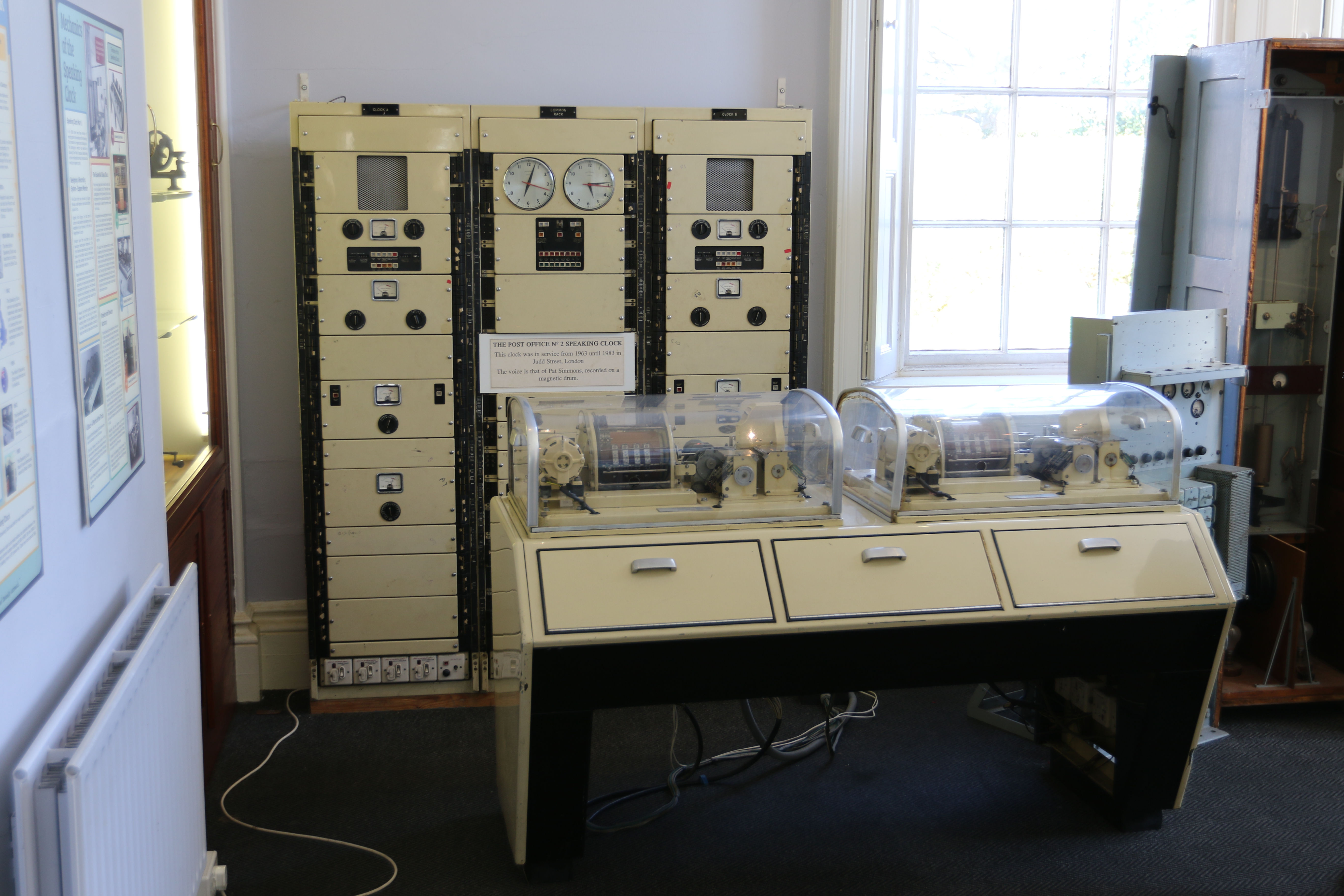 In use from 1963 to 1983 in Judd Street, London. Voice of Pat Simmons. In the British Horological Museum, Upton Hall, Nottinghamshire